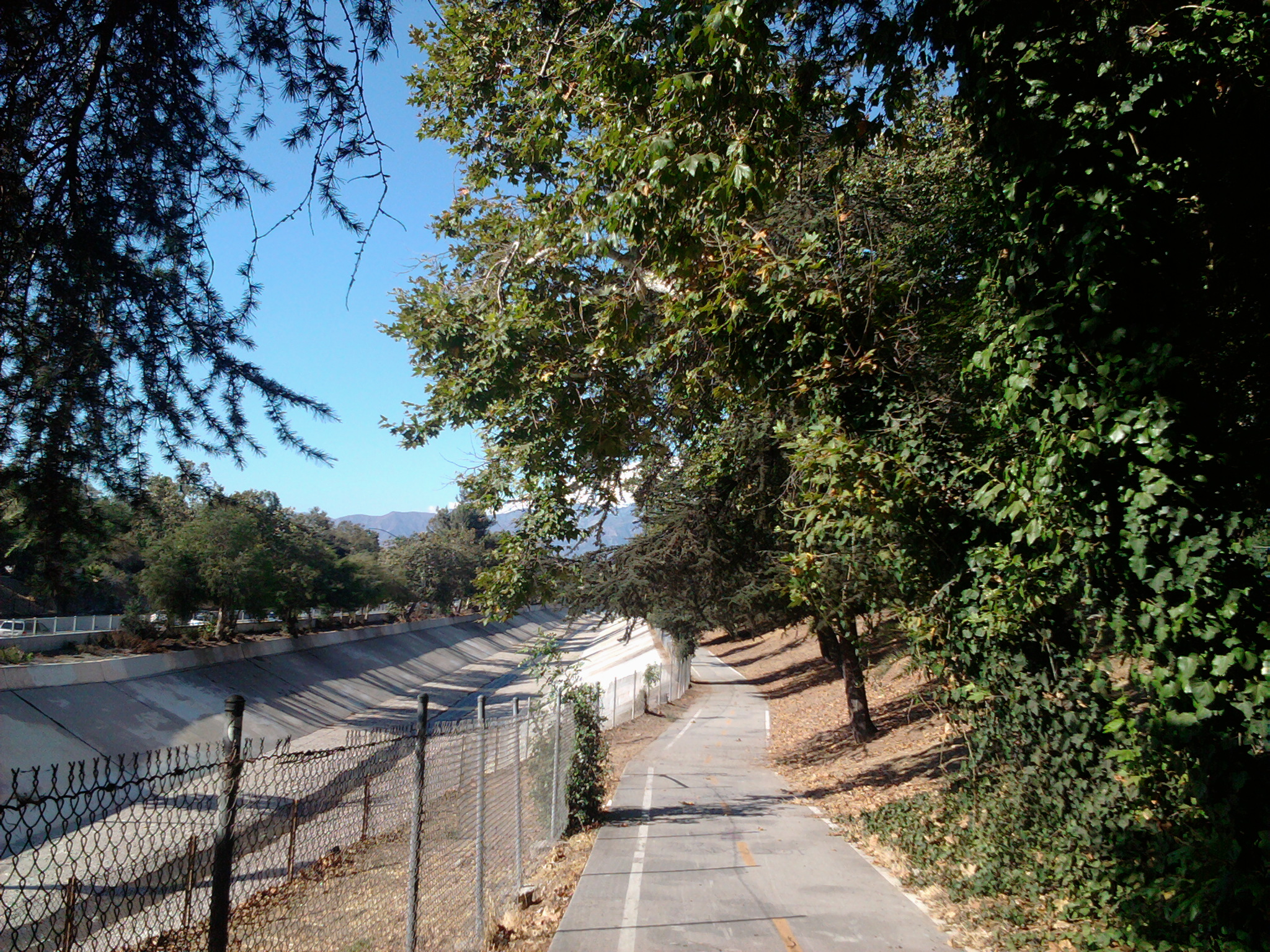 Southern entrance to the Arroyo Seco Bicycle Path, in the Highland Park district of NE Los Angeles. Beside the Arroyo Seco (creek channel) - in Los Angeles County, California.